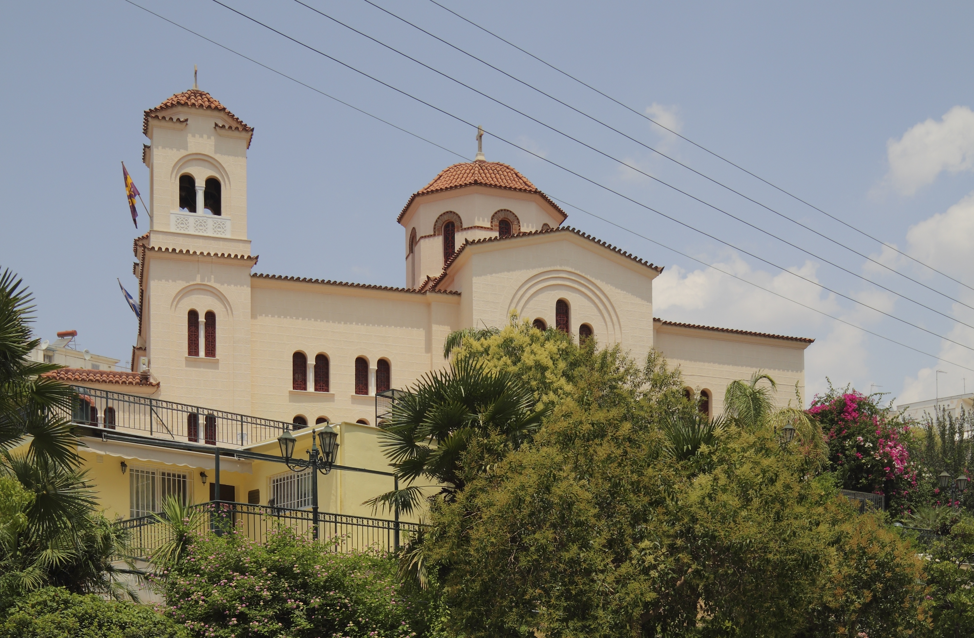 Church Metamorphosi Sotiros (Μεταμόρφωση Σωτήρος) in Kallithea (Attica, Greece)